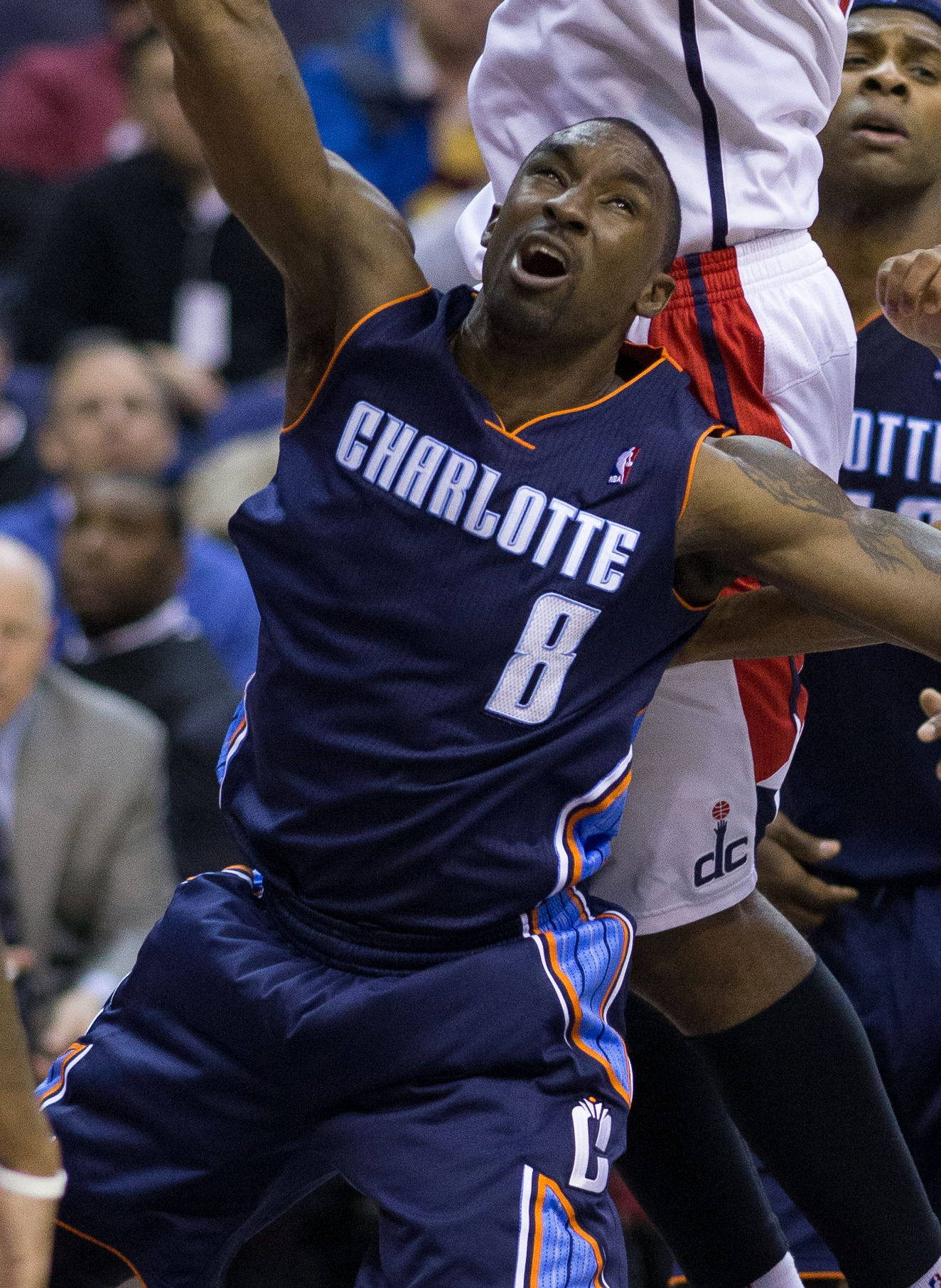 Ben Gordon, Charlotte Bobcats at Washington Wizards March 9, 2013